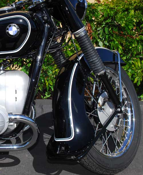 BMW R51/3 "bell-bottom" front fender Photo © by Jeff Dean